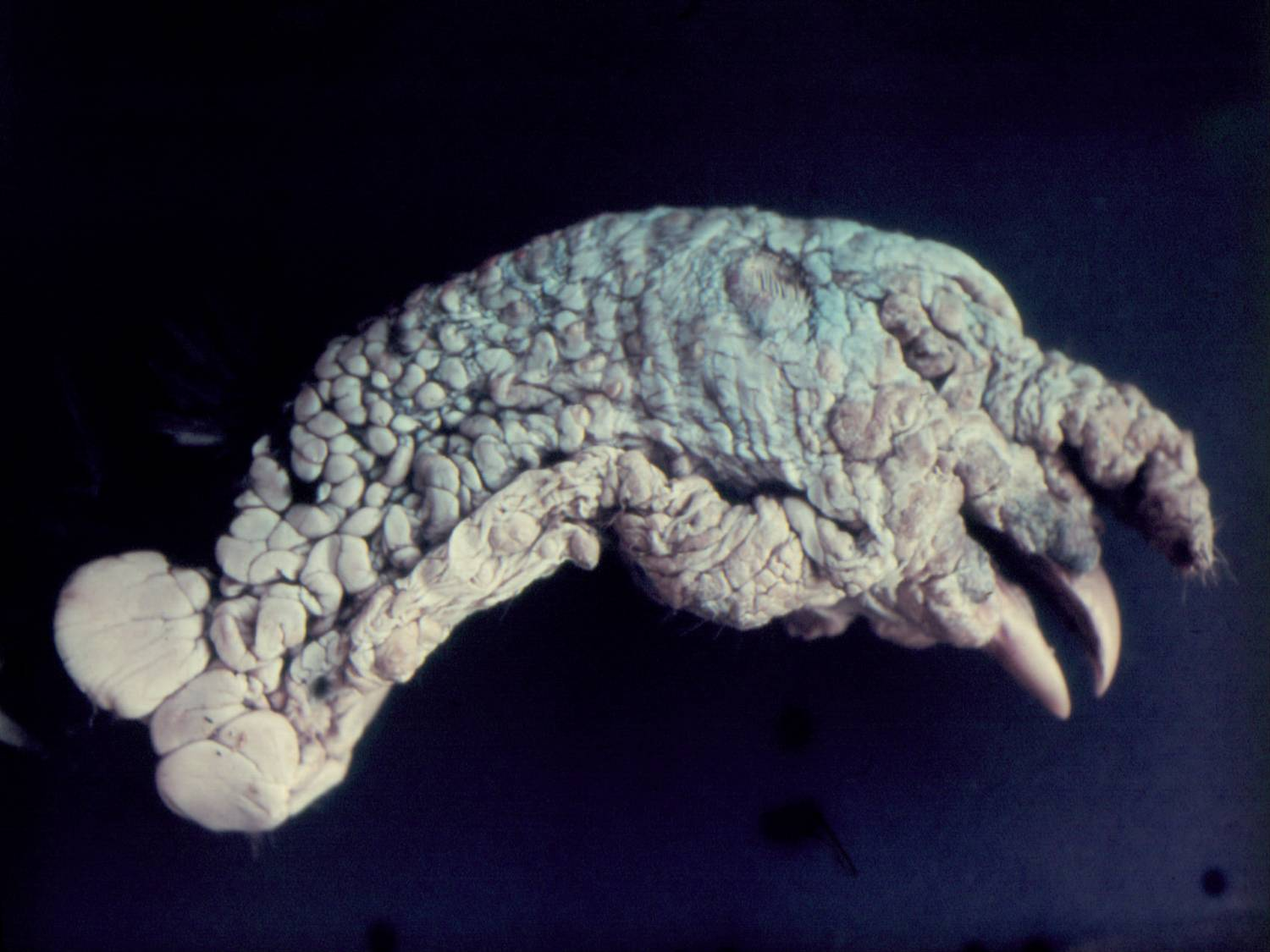 Avian pox - skin affected (domestic turkey)